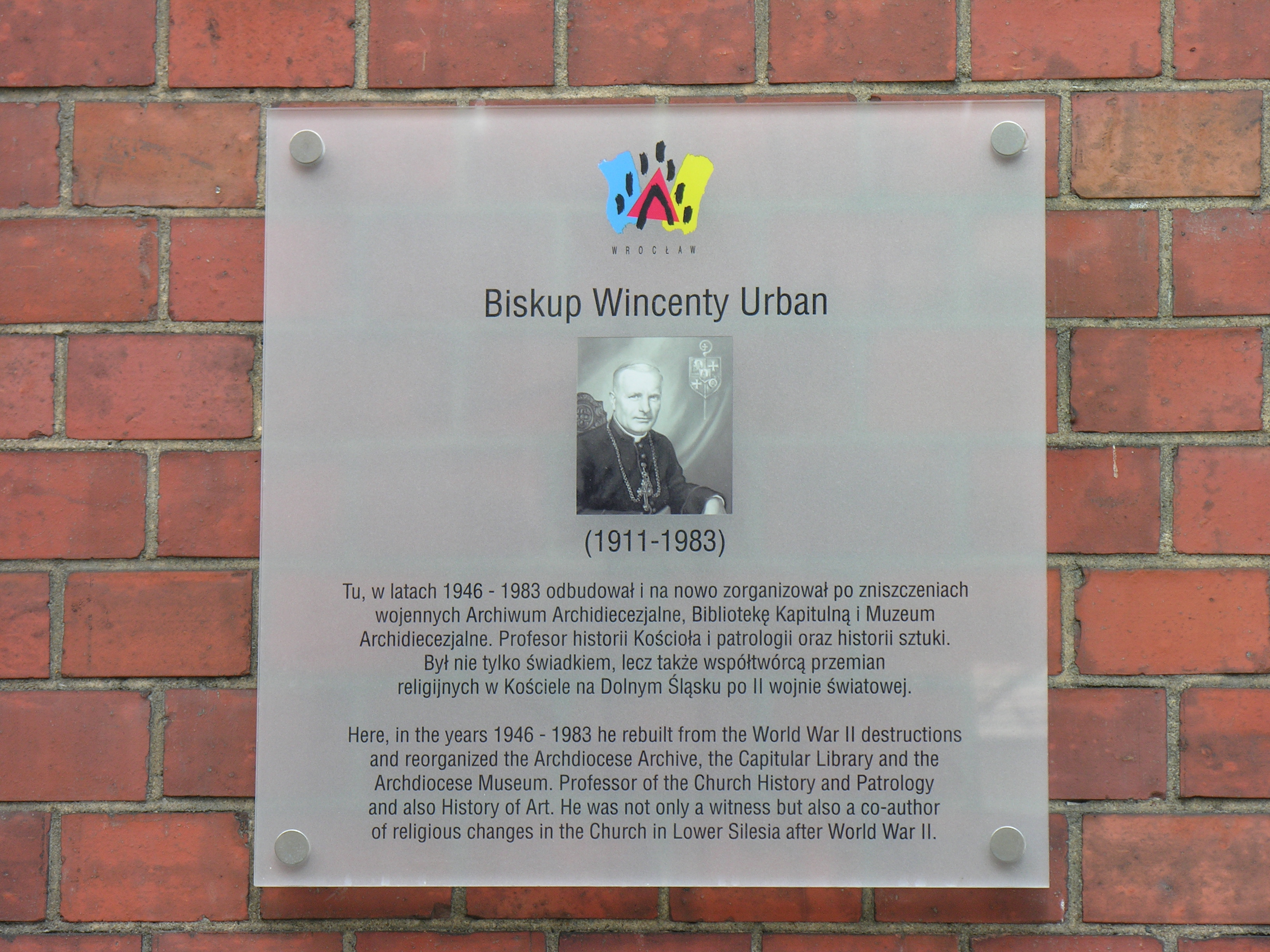 Tablica ku czci Wincentego Urbana, Wrocław, ul. Kanonia 12